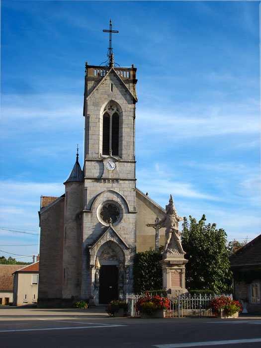 Church of Montrond-le-Chateau